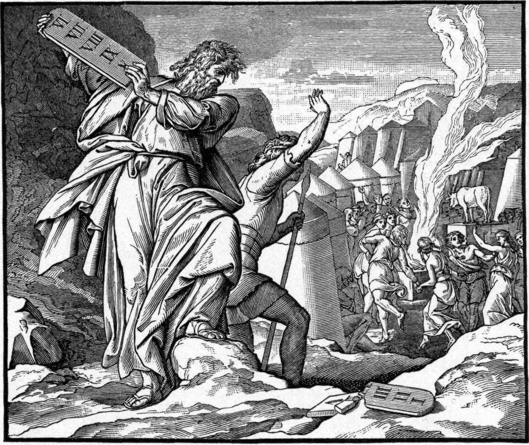 Moses Throws the Tablet of Stone. Caption: "Moses has a tablet of stone in his hand. It has some writing on it. He is throwing it down on the ground. Why does he do this ? I will tell you. Moses has been up on yonder mountain. God told him to go up, and while he was there God spoke to him and gave him two tablets of stone. They had the ten commandments written on them. God had written them there with his own hand. They were to teach the people what God wanted them to do. Now Moses is bringing them down from the mountain. But when he comes he finds all the people doing wickedly. They have made an idol out of gold. It is in the shape of a calf. And they have taken the calf for their god, and are praying to it. This is very wicked, for God has told them they must not pray to idols. And now when Moses is bringing them the tablets which God has sent to them, he sees all the people praying to the golden calf. And Moses is very angry. He says they do not deserve to have the tablets which God has sent, and he throws them down on the ground." Illustration from the 1897 Bible Pictures and What They Teach Us: Containing 400 Illustrations from the Old and New Testaments: With brief descriptions by Charles Foster